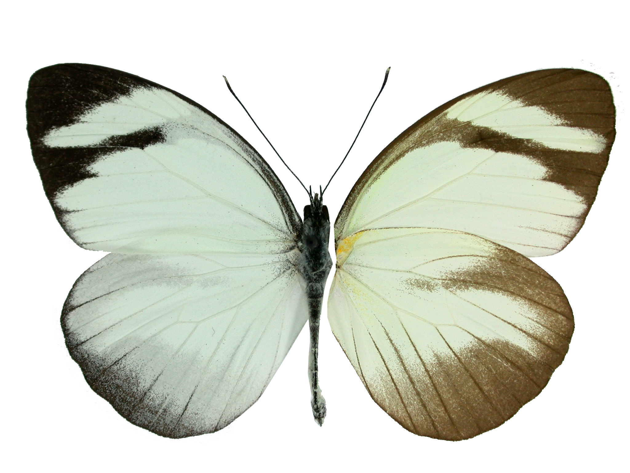 Itaballia demophile